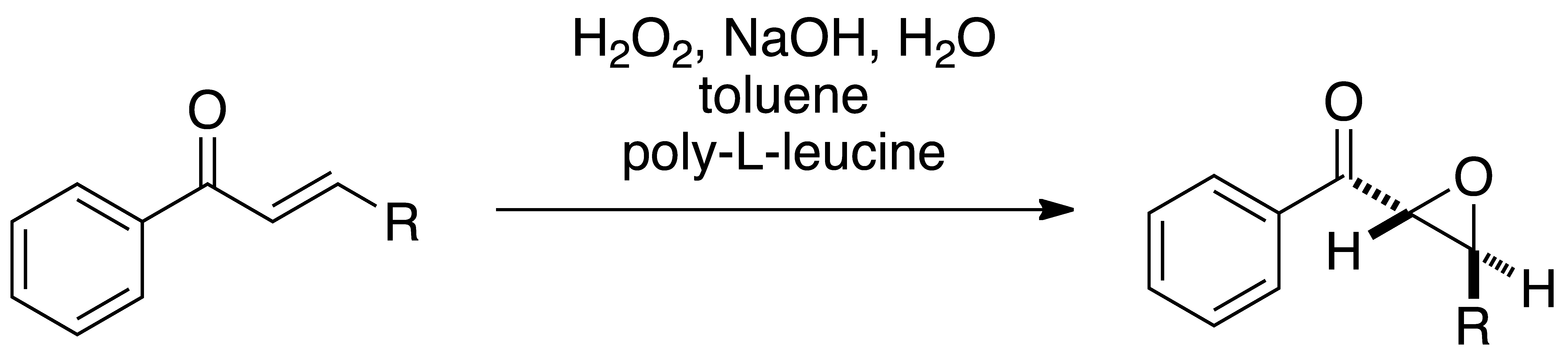 The Juliá-Colonna Epoxidation of a chalcone proceeds with poly-L-leucine and hydrogen peroxide in generic triphasic conditions. Image adapted from Julia, S.; Guixer, J.; Masana, J.; Rocas, J.; Colonna, S.; Annuziata, R.; Molinari, H., Synthetic enzymes. Part 2. Catalytic asymmetric epoxidation by means of polyamino-acids in a triphase system. J. Chem. Soc., Perkin Trans. 1 1982, 1317-1324.